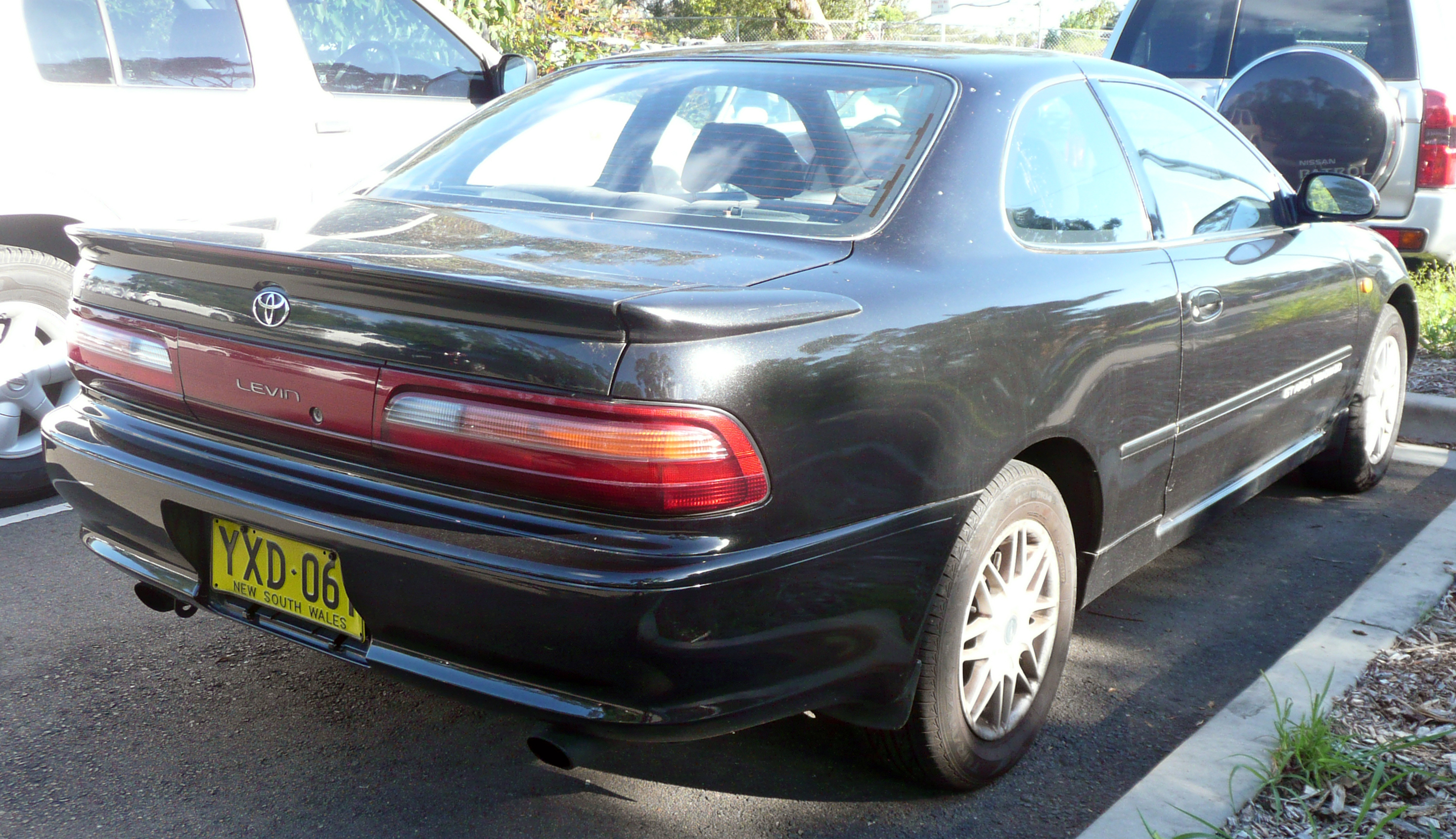 1993 Toyota Corolla Levin (AE101) GT Apex coupe (Japanese grey import). Photographed in Kirrawee, New South Wales, Australia.